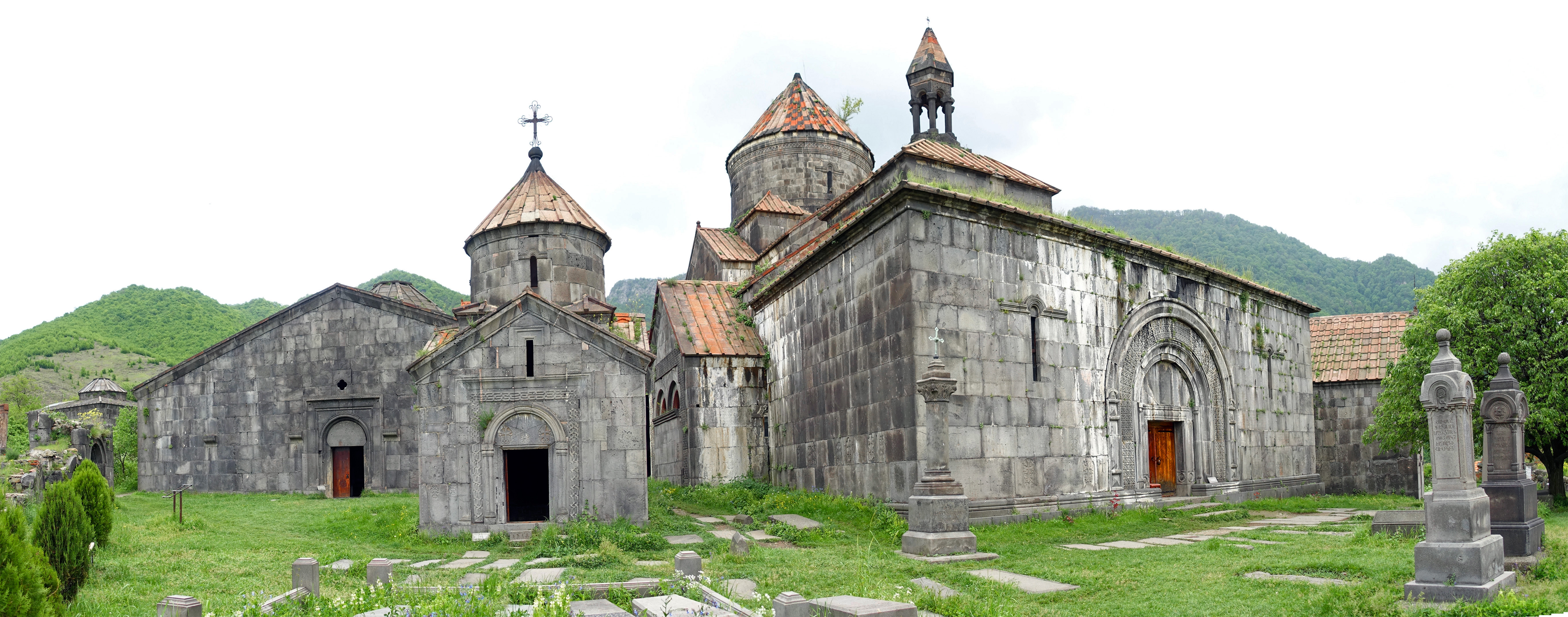 Haghpat Monastery, Armenia.